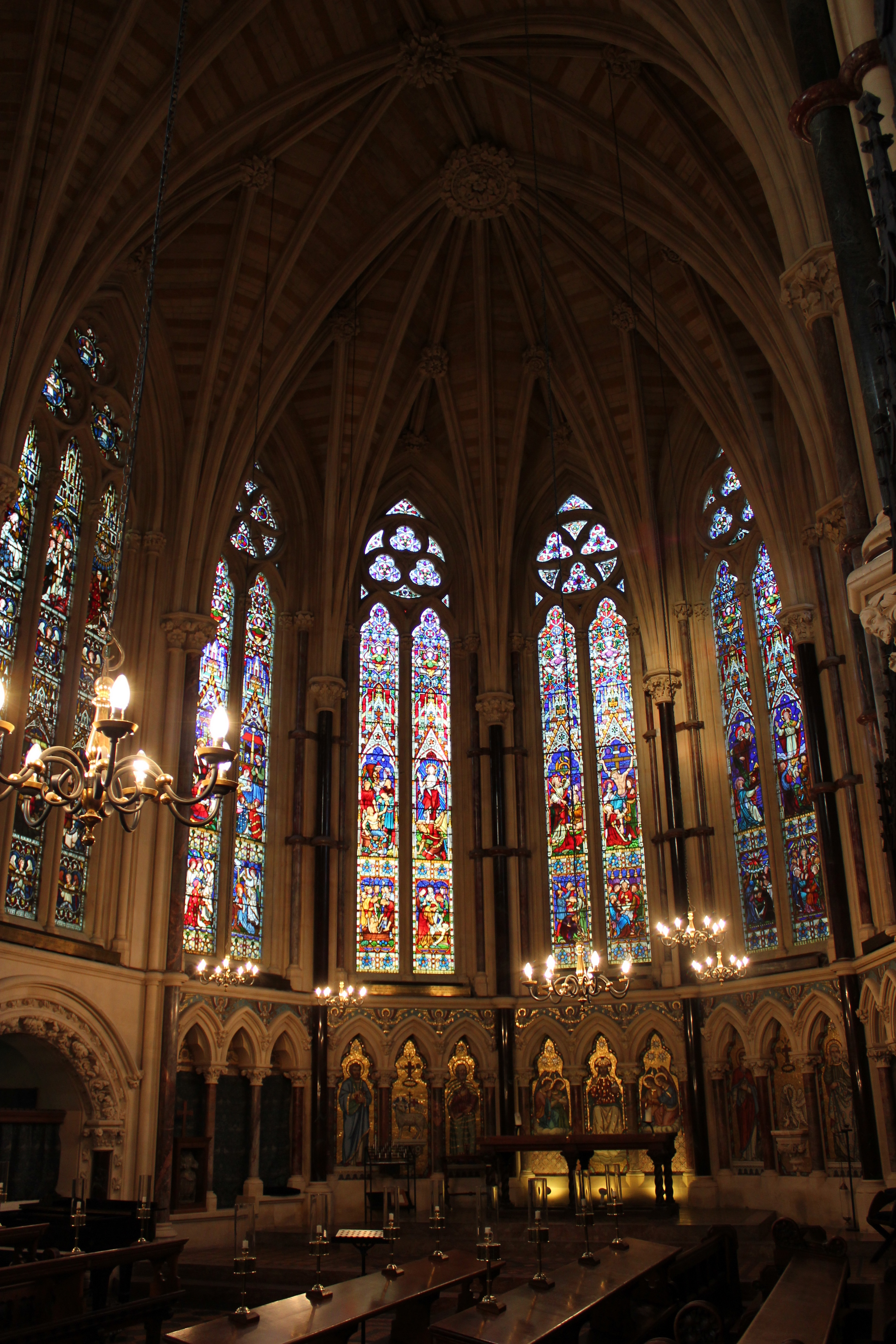 Chancel of Exeter College chapel, Oxford